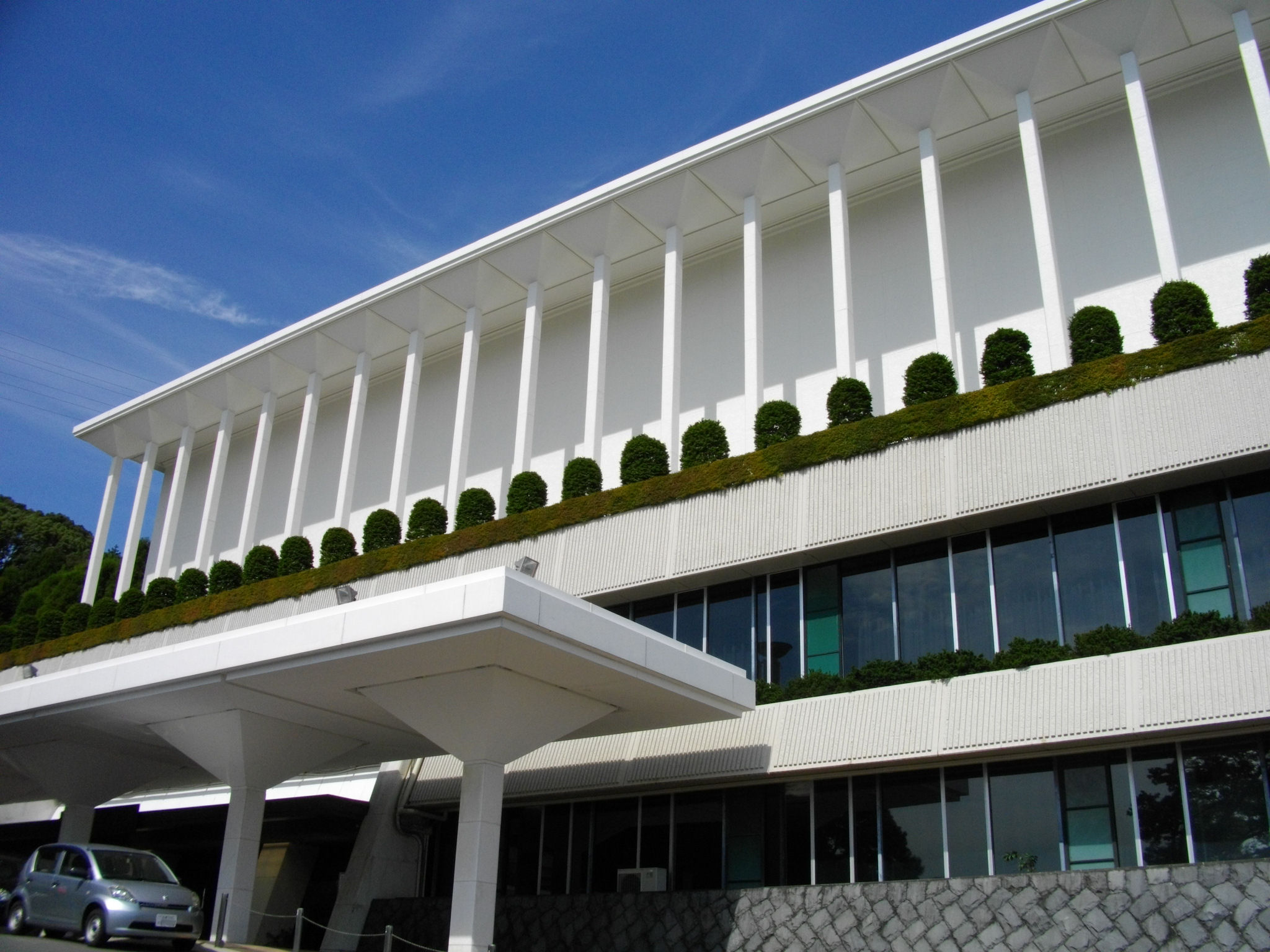 Kyusei-Kaikan(Church of World Messianity Headquaters)